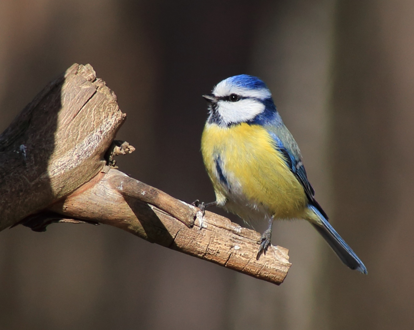 A Blue Tit (Cyanistes caeruleus) in Hietasaari, Oulu.